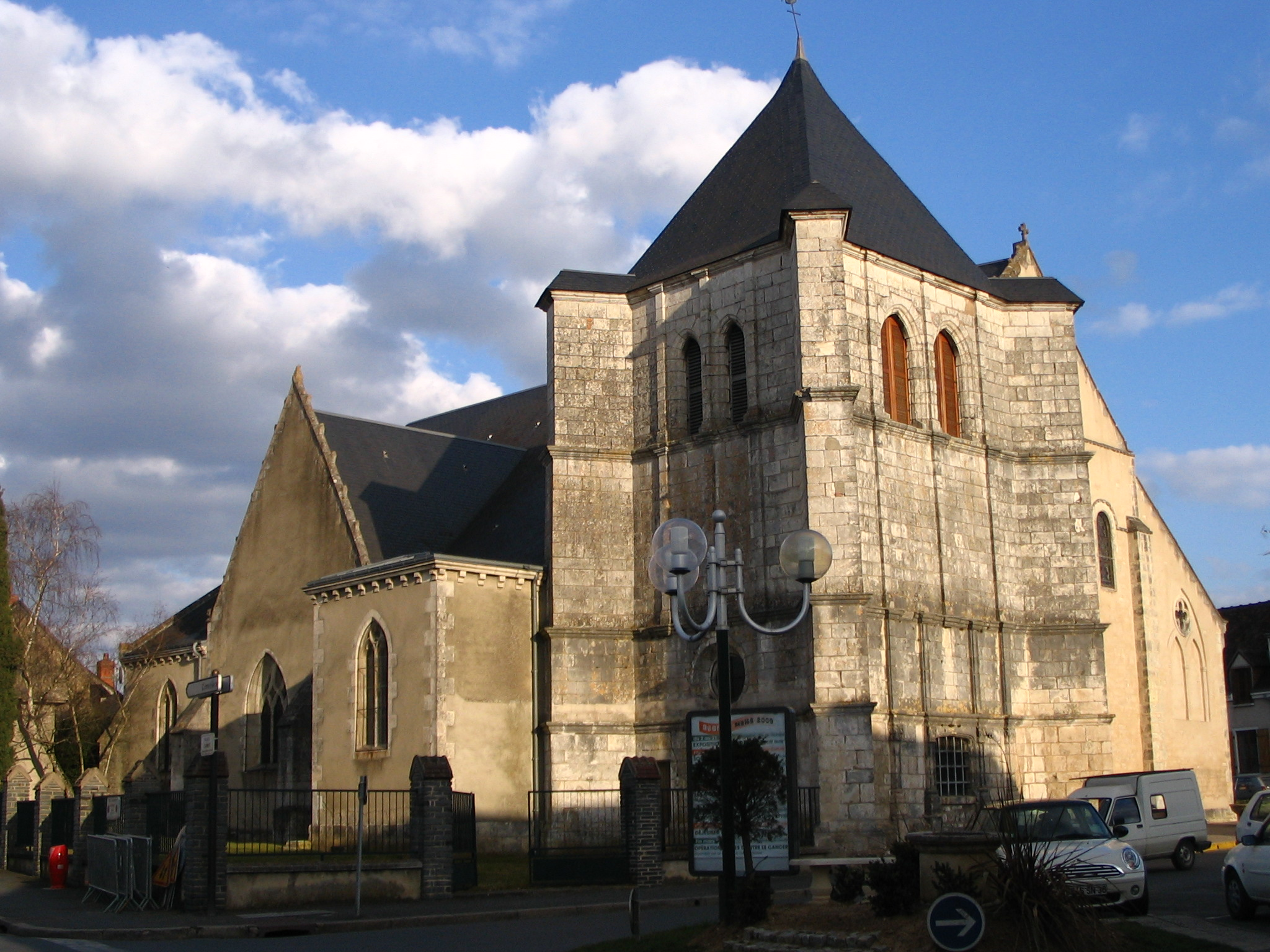 St.Stephen's church, in Déols, Indre, France.